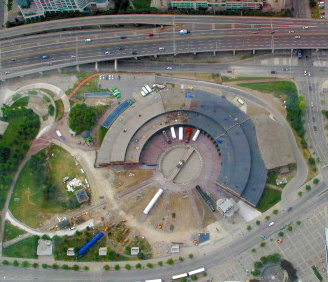 The John Street Roundhouse photographed from the CN Tower